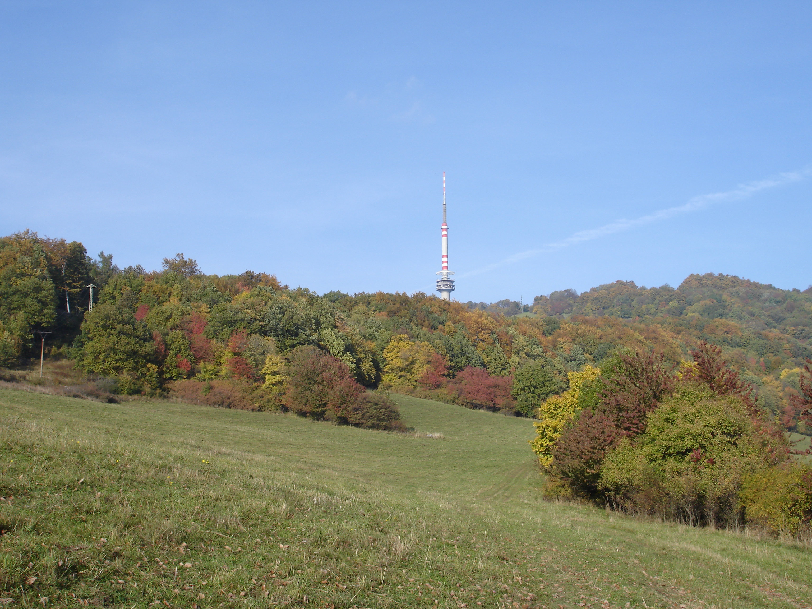 view to mountain Buková hora in České středohoří, Czech Republic